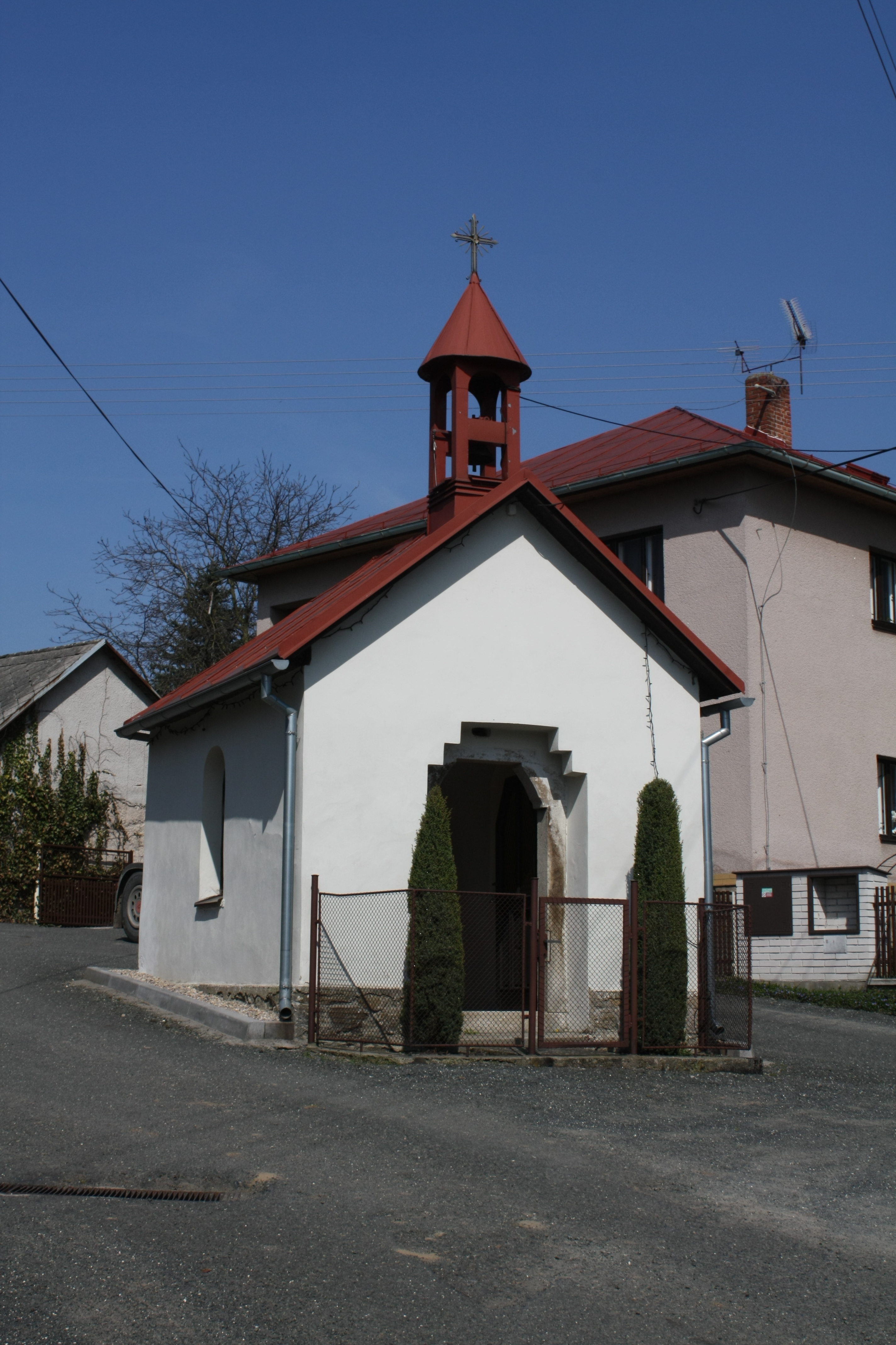 Veliká, Havlíčkův Brod district, Czech Republic Object location 49° 40′ 11.1″ N, 15° 18′ 17.14″ E This and other images at their locations on: Google Maps - Google Earth - OpenStreetMap - Proximityrama(Info)